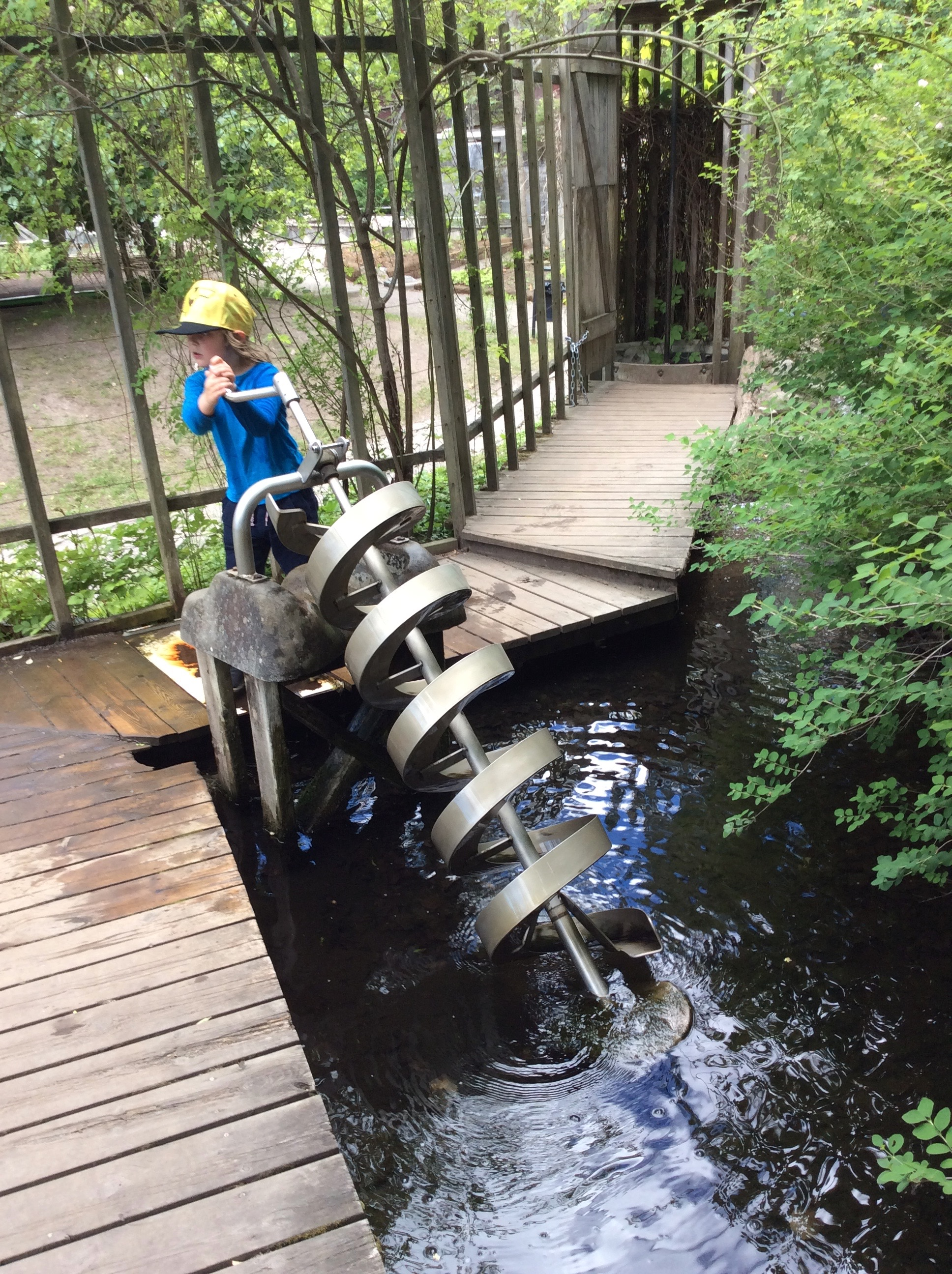 Archimedes' screw, Södertälje